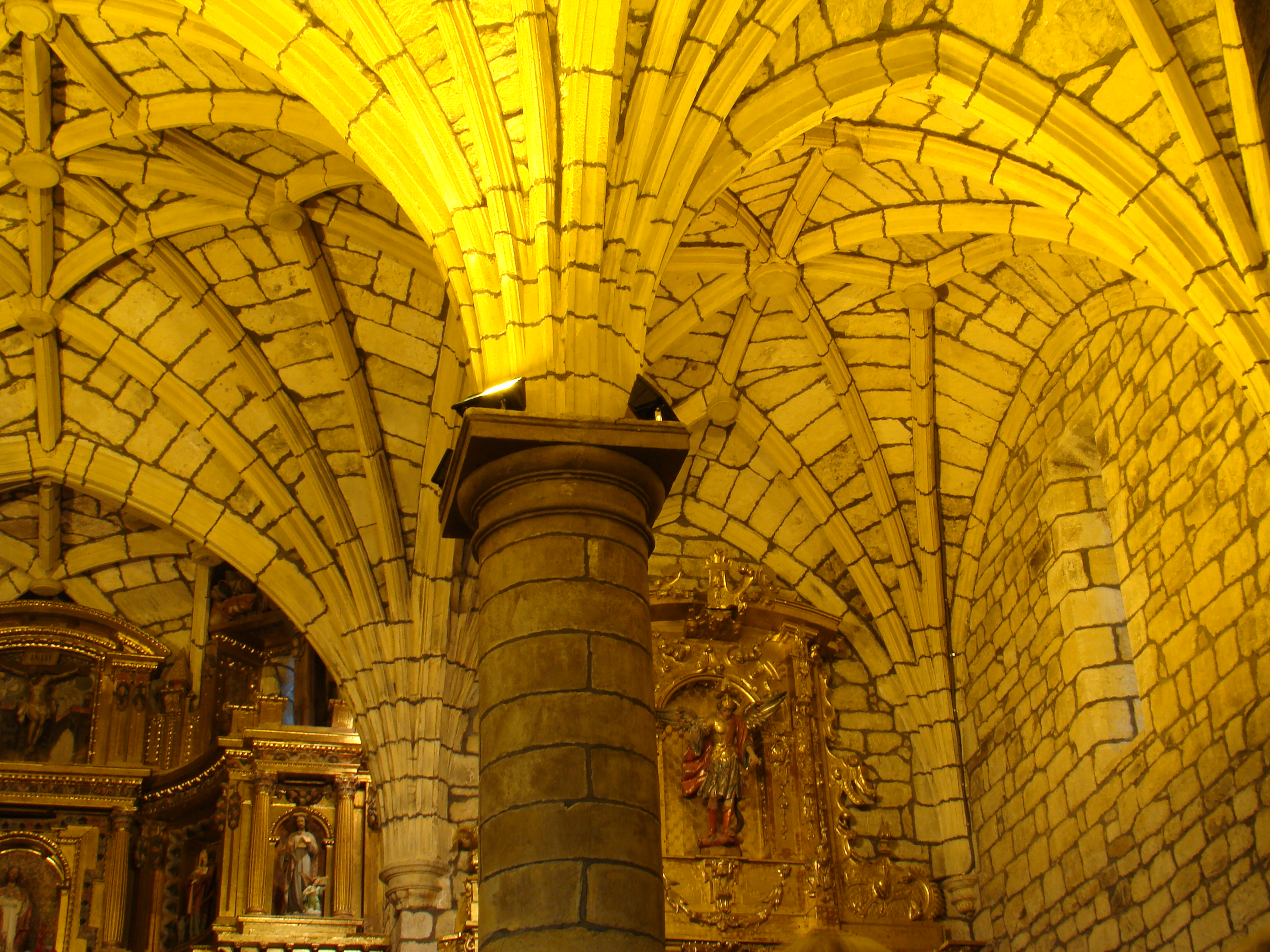 Inside the church of San Pedro ad Vincula in Liérganes, Cantabria, Spain. It is of Renaissance style,in Barroque times though.